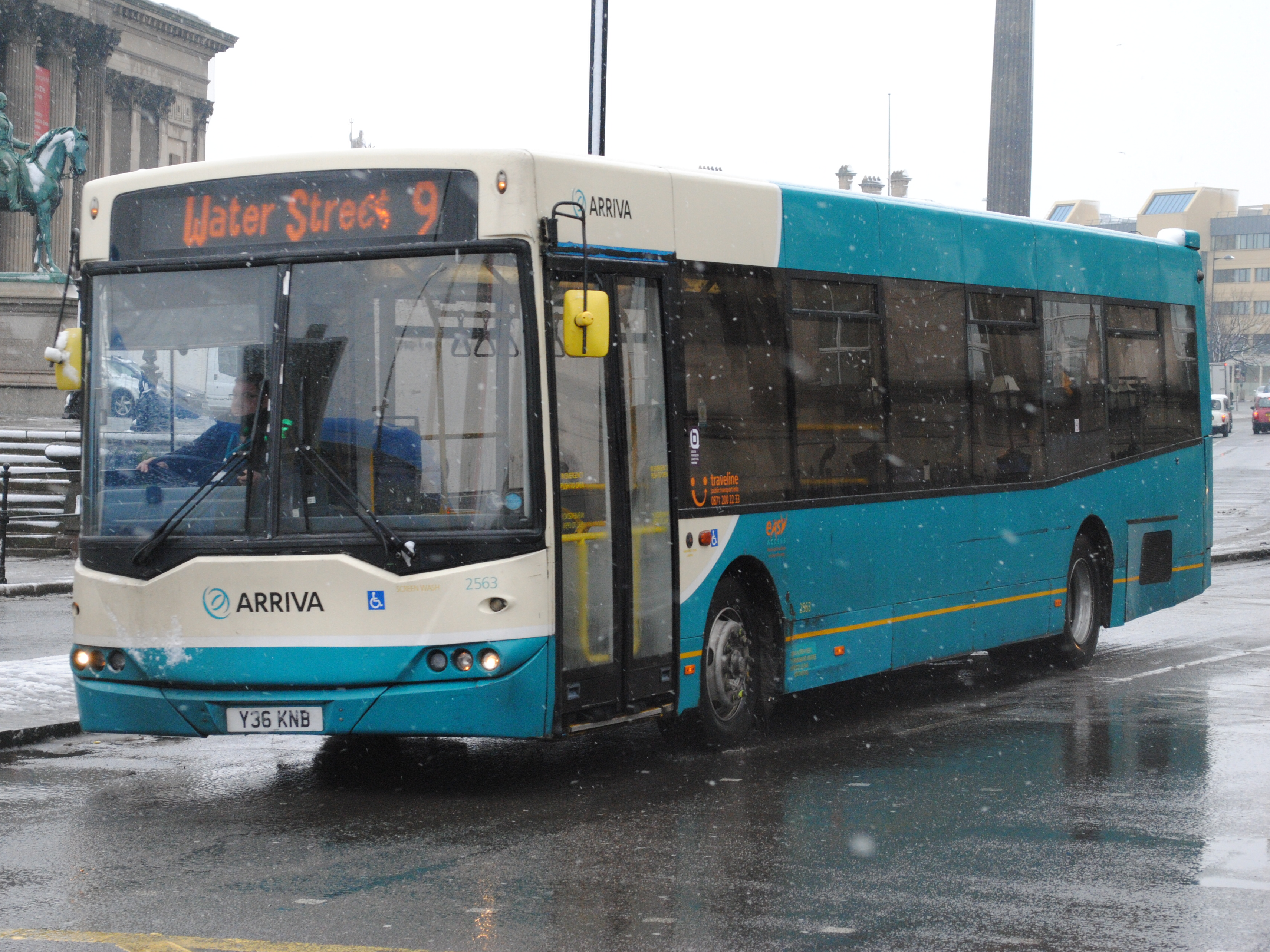 An Arriva North West bus on route 9 in Liverpool during a light snowfall. The bus is a DAF SB220 Ikarus Polaris, registration mark Y36 KNB, fleet number 2563.